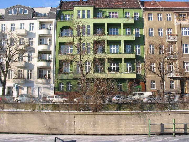 Landwehrkanal, Berlin-Kreuzberg; Heckmannufer (gegenüber Lohmühleninsel)